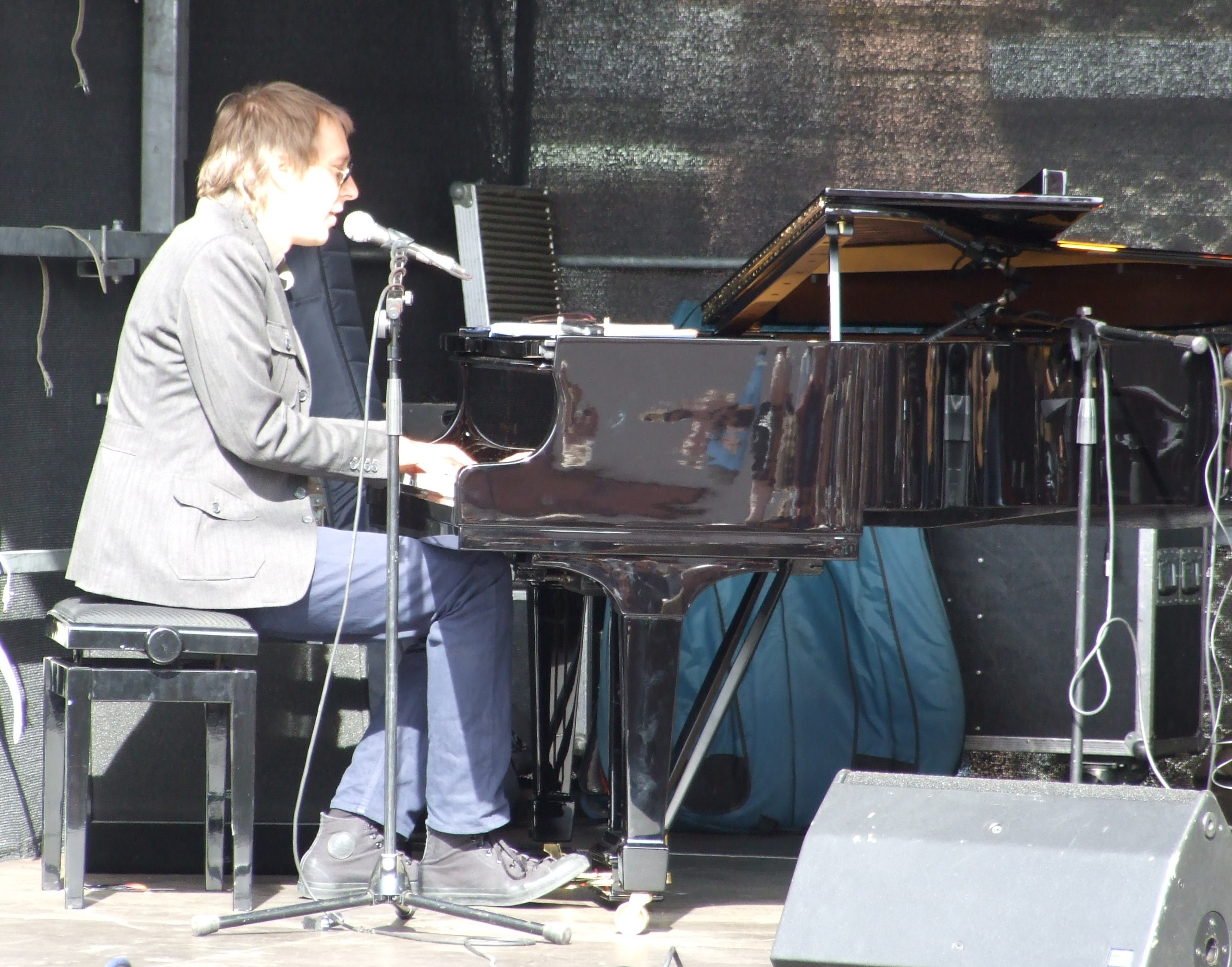 Matthias Vogt by "Jazz zum Dritten", as leader of "Matthias Vogt Trio" at "Roemerberg" in Frankfurt on National Day (2009)